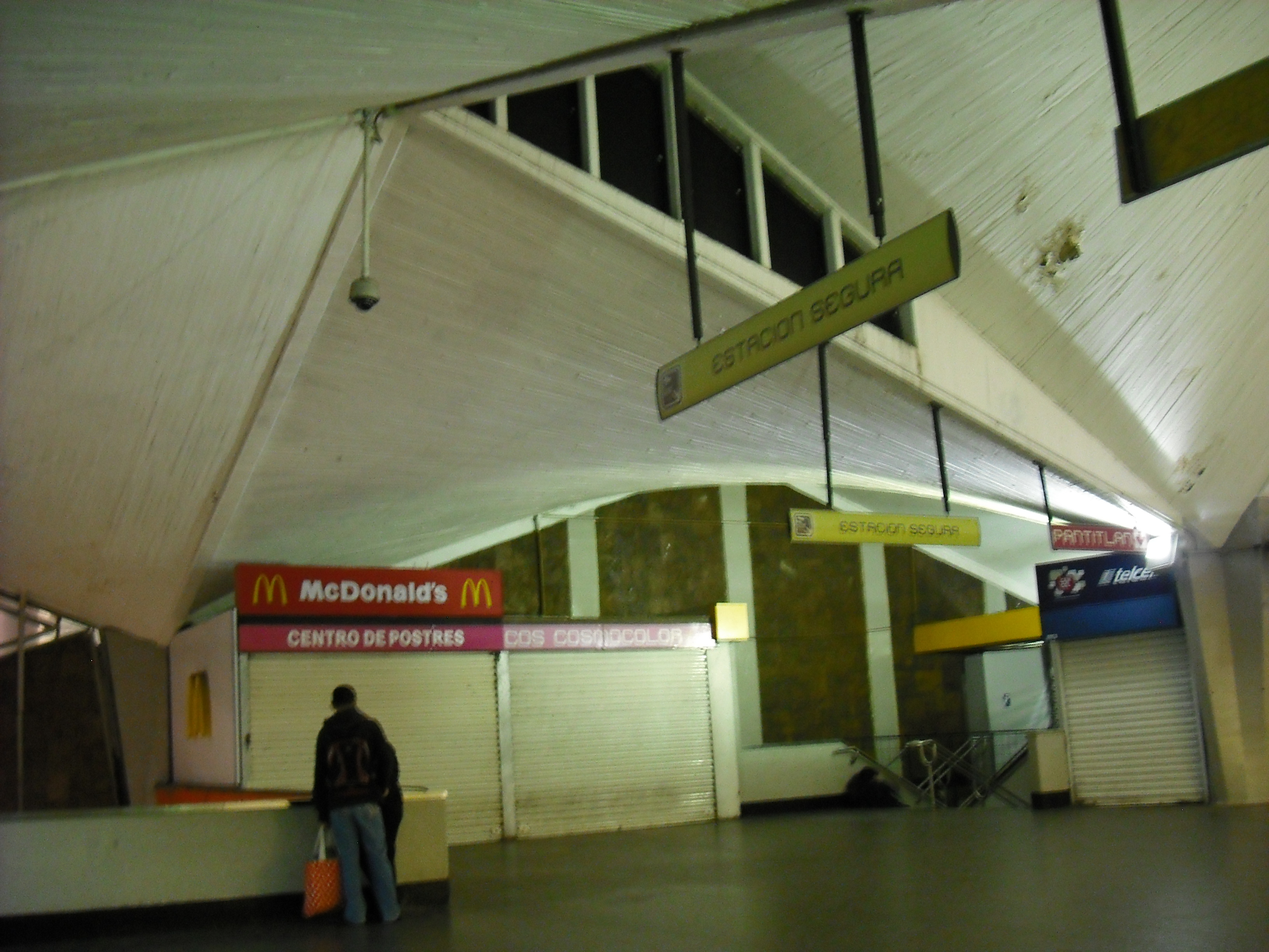 San Lazaro station, by architect Felix Candela, Metro Line 1 of Mexico City.